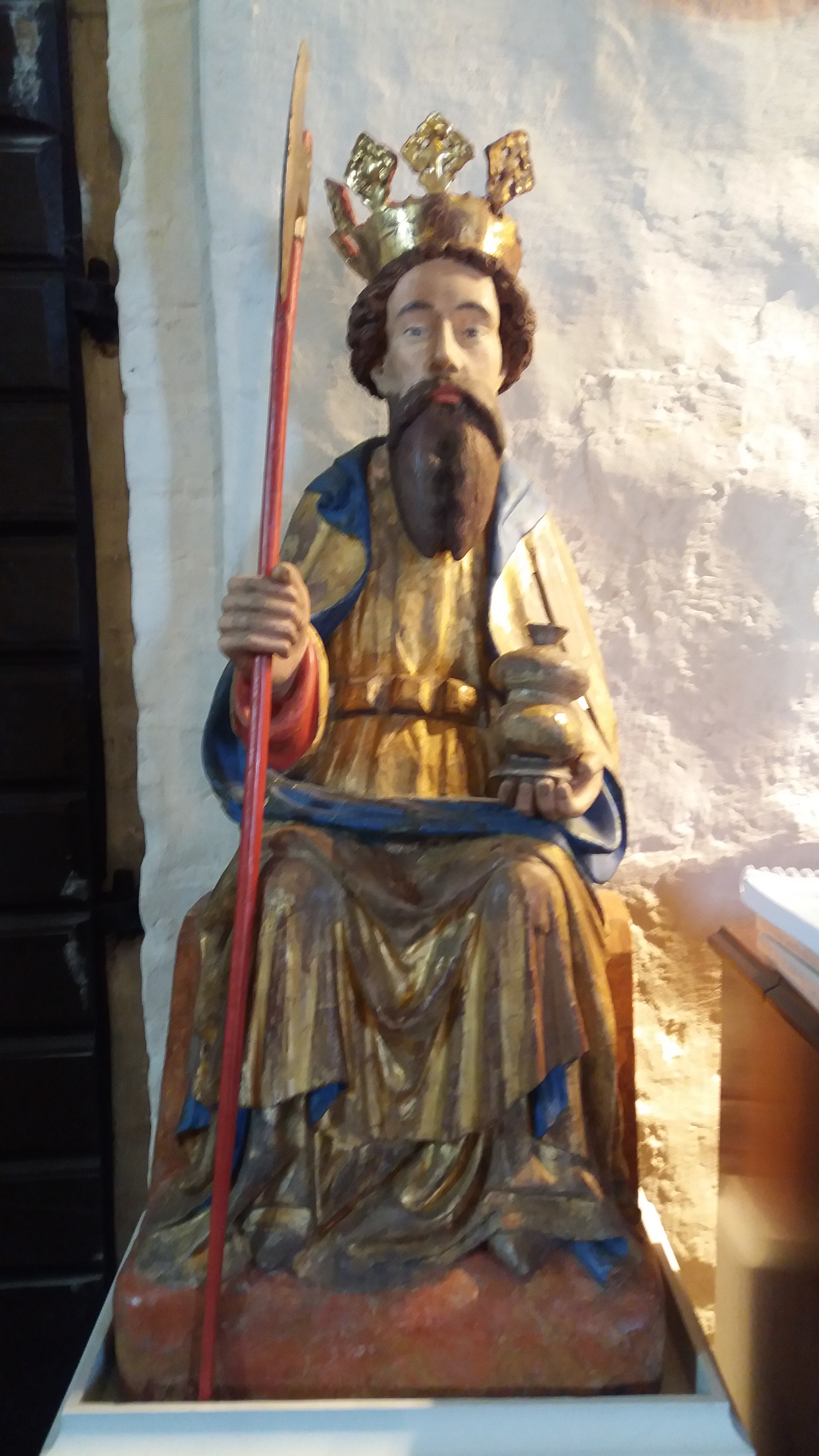 1430s sculpture of St. Olaf in the Medieval St. Olof's Church, Ulvila, Finland.